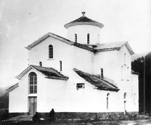 Central Zelenchuk Church (9th or 10th cent.), as photographed in 1897.